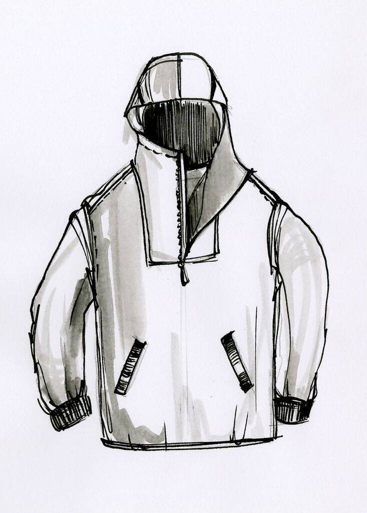 The description of the concept in this drawing is: Hooded pullover hip-length garments made of weather-resistant material often with zipper closure at neck and drawstring hem; may be lined and have a front-center pocket; worn for sports. For hooded jackets or pullover garments reaching to the thighs or knees made of skins or hides or water-repellent or windproof fabric, use "parkas." (AAT)